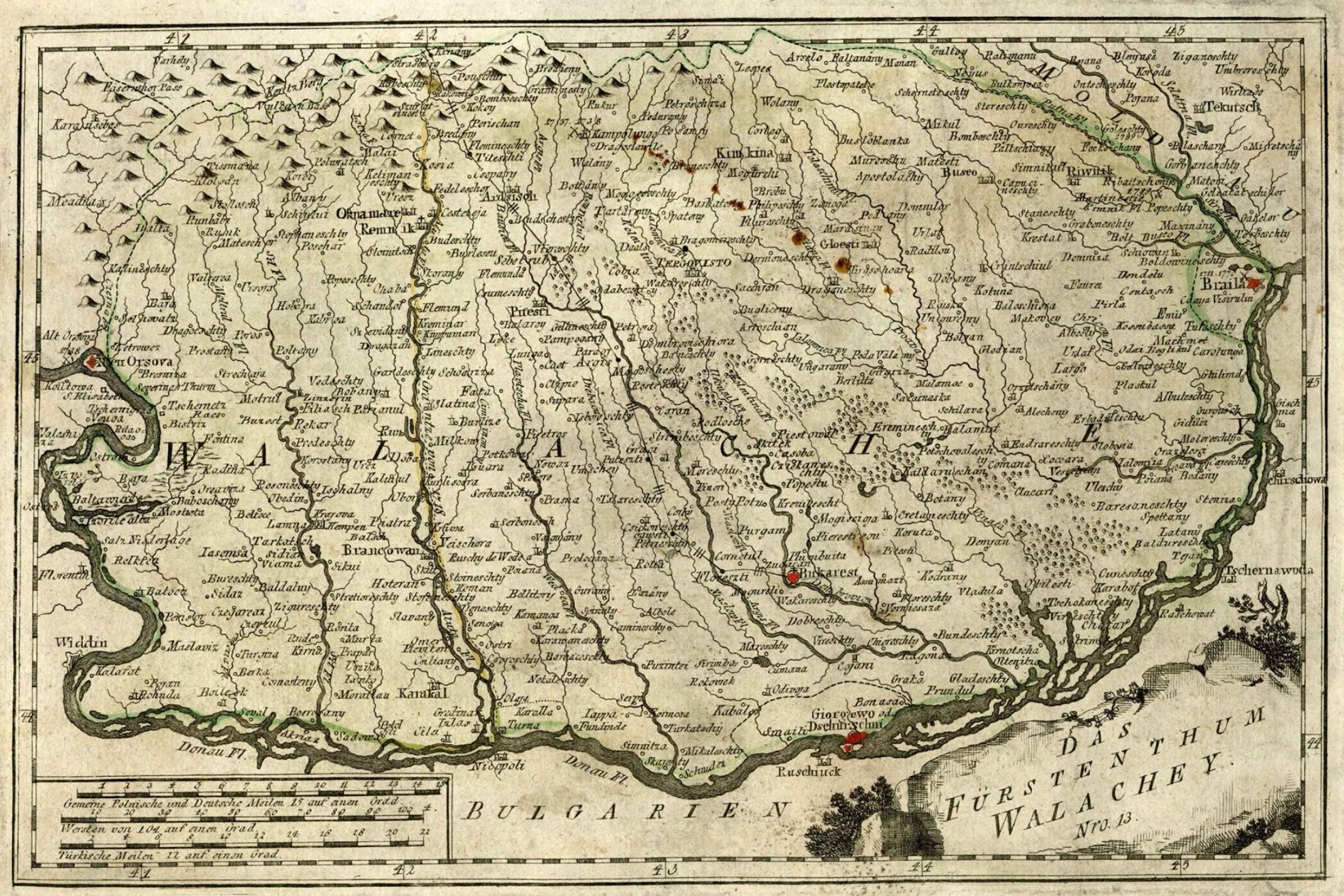 F.J.J., von Reilly, Das Furstenthum Walachey, Viena, 1789